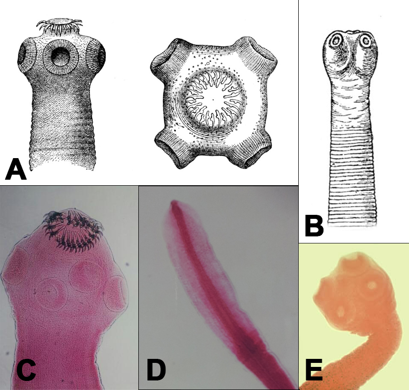 Tapeworm scoleces: A: Taenia solium scolex – illustrated B: Taenia saginata scolex – illustrated C: Taenia solium scolex – 4 suckers, rostellum, one row of hooks D: Diphyllobothrium spp. scolex – with bothriae E: Taenia saginata scolex – 4 suckers and rudimentary rostellum